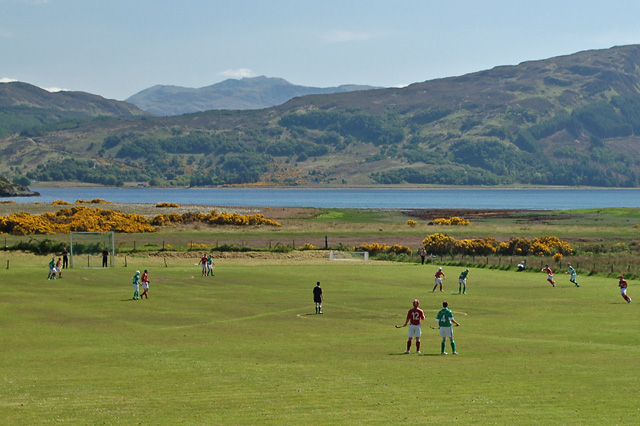 Shinty at Kirkton